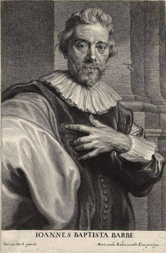 Portrait of Jan-Baptiste Barbé, Southern Netherlandish engraver Reproduced in "The Art of Dutch and Flemish Printmaking in the 17th Century".